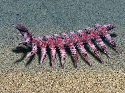 Diania